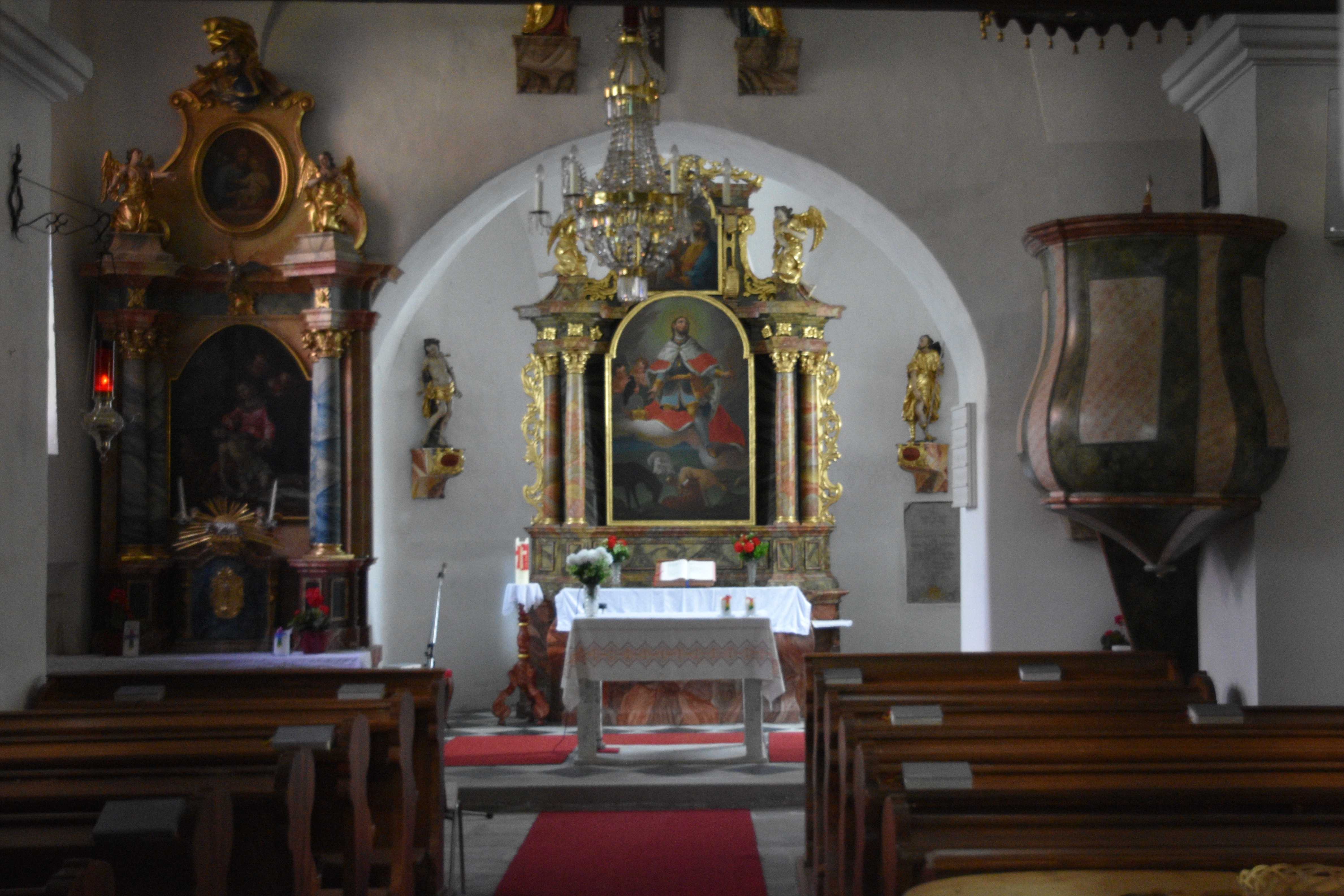 Saint Oswald of Northumbria Church (Röthelstein) - Interior